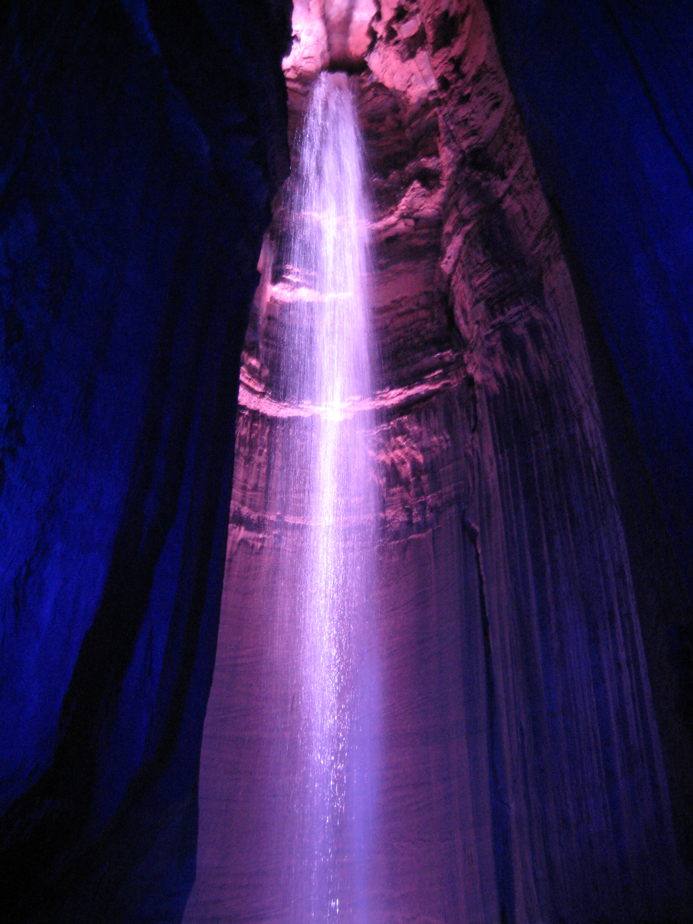 Ruby Falls, inside Lookout Mountain, in Chattanooga, Tennessee